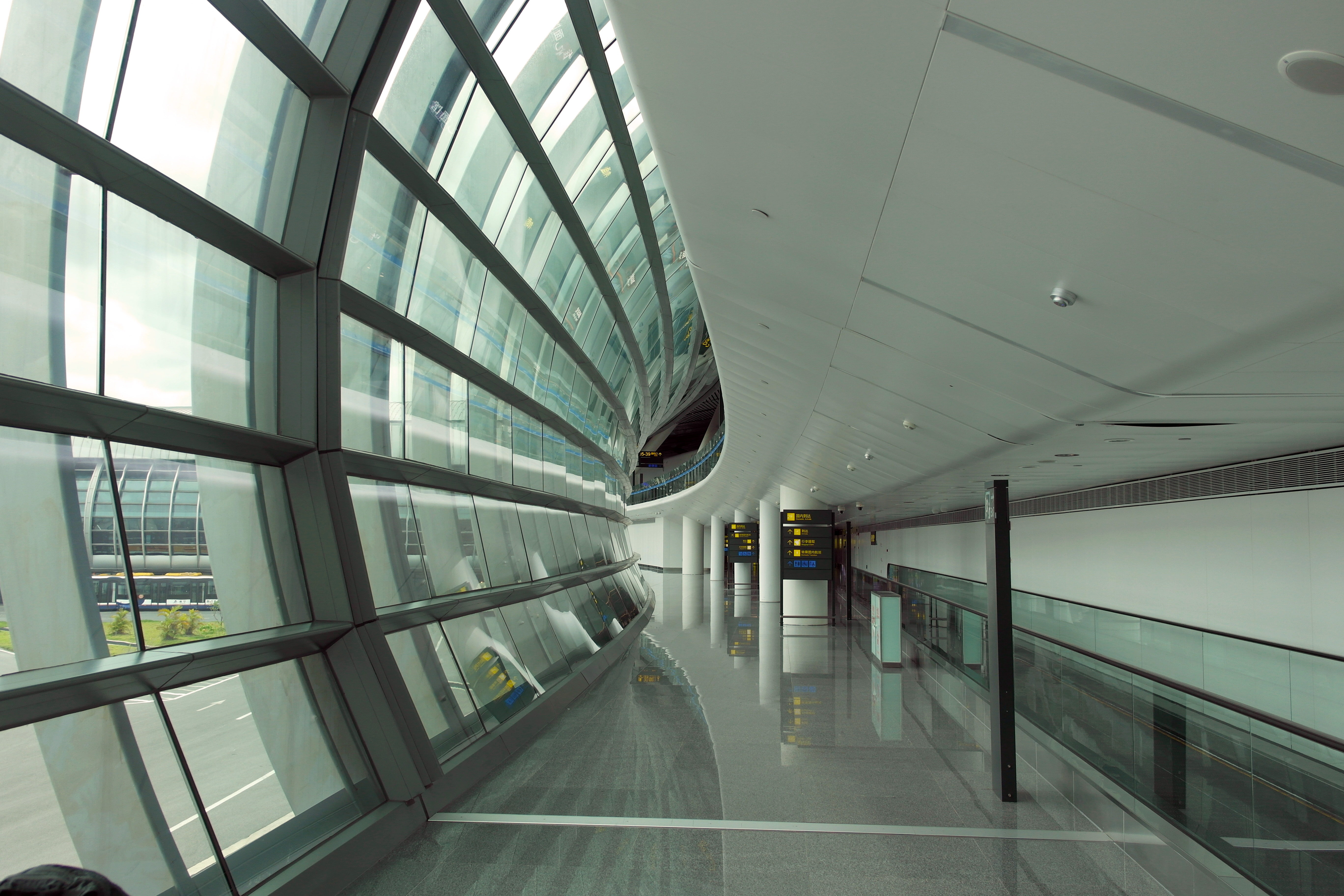 SAMSUNG CSC